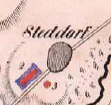 Prehistoric tombs near Steddorf